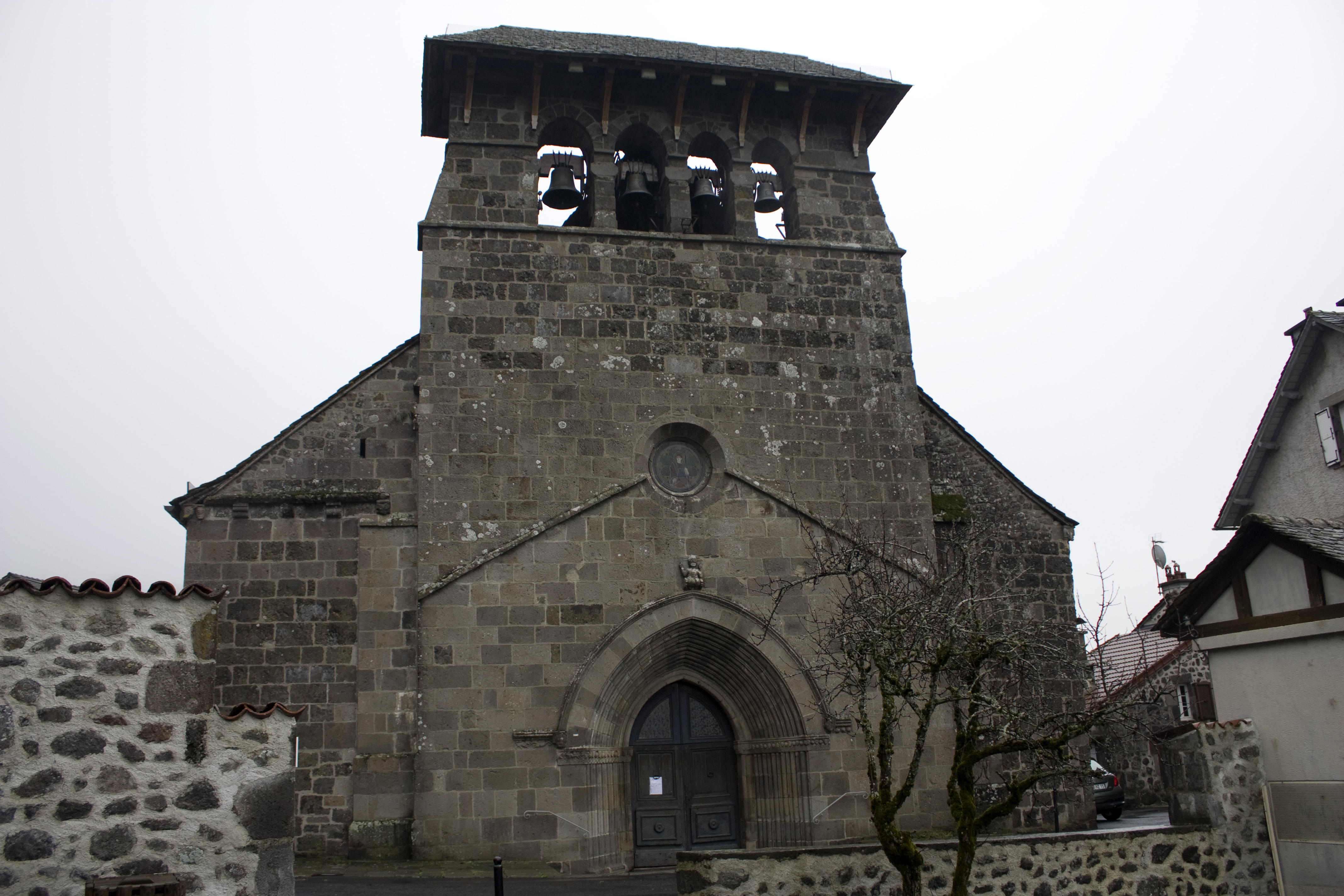 The church of St Victor, dates from the nineteenth century for its oldest parts: tower in comb form, porch .....